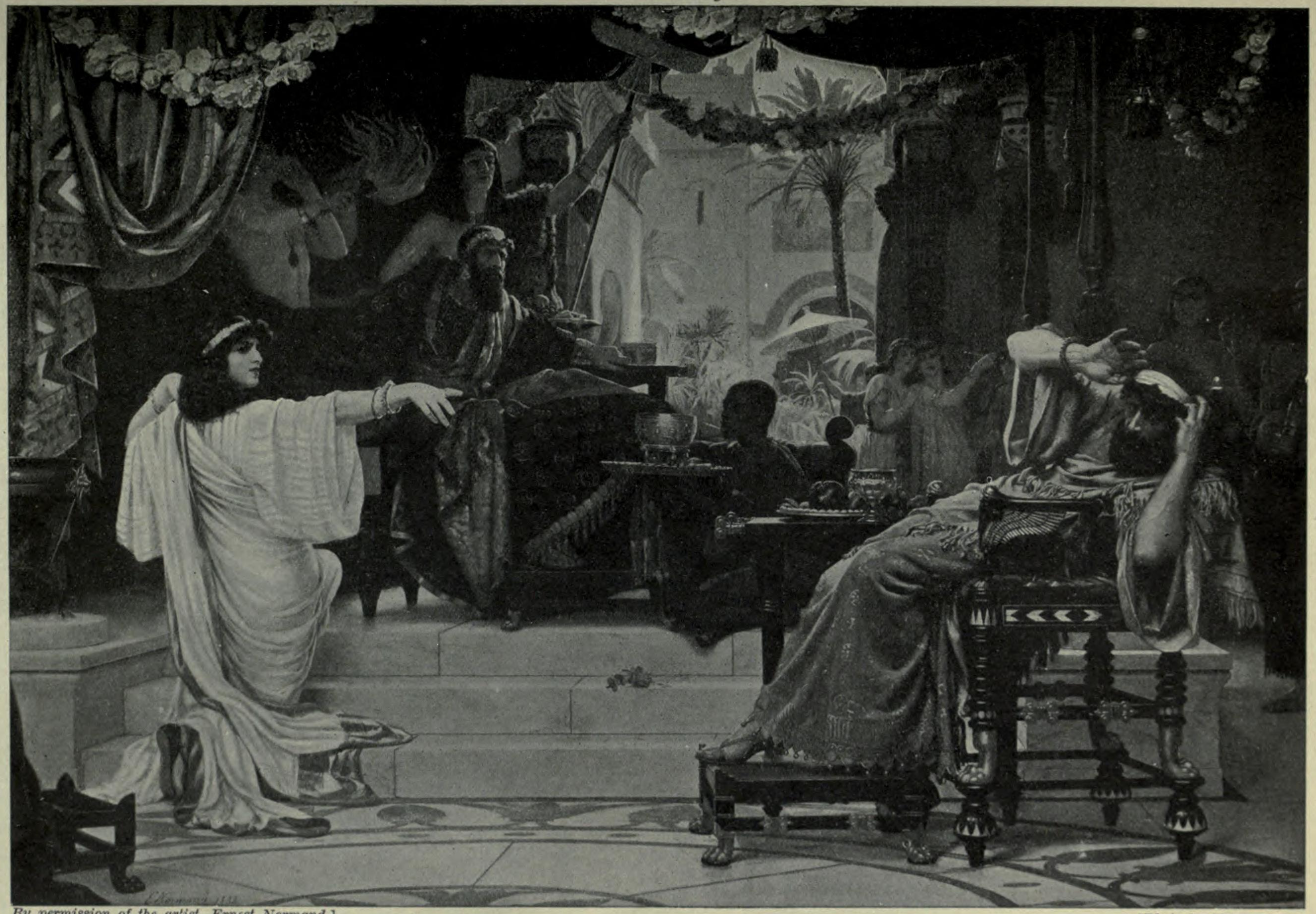 Hutchinson's story of the nations, containing the Egyptians, the Chinese, India, the Babylonian nation, the Hittites, the Assyrians, the Phoenicians and the Carthaginians, the Phrygians, the Lydians, and other nations of Asia Minor Published [n.d.] Topics Asia -- History SHOW MORE 26 Publisher London, Hutchinson Pages 410 Possible copyright status NOT_IN_COPYRIGHT Language English Call number AER-3187 Digitizing sponsor MSN Book contributor Robarts - University of Toronto Collection robarts; toronto Full catalog record MARCXML [Open Library icon]This book has an editable web page on Open Library.